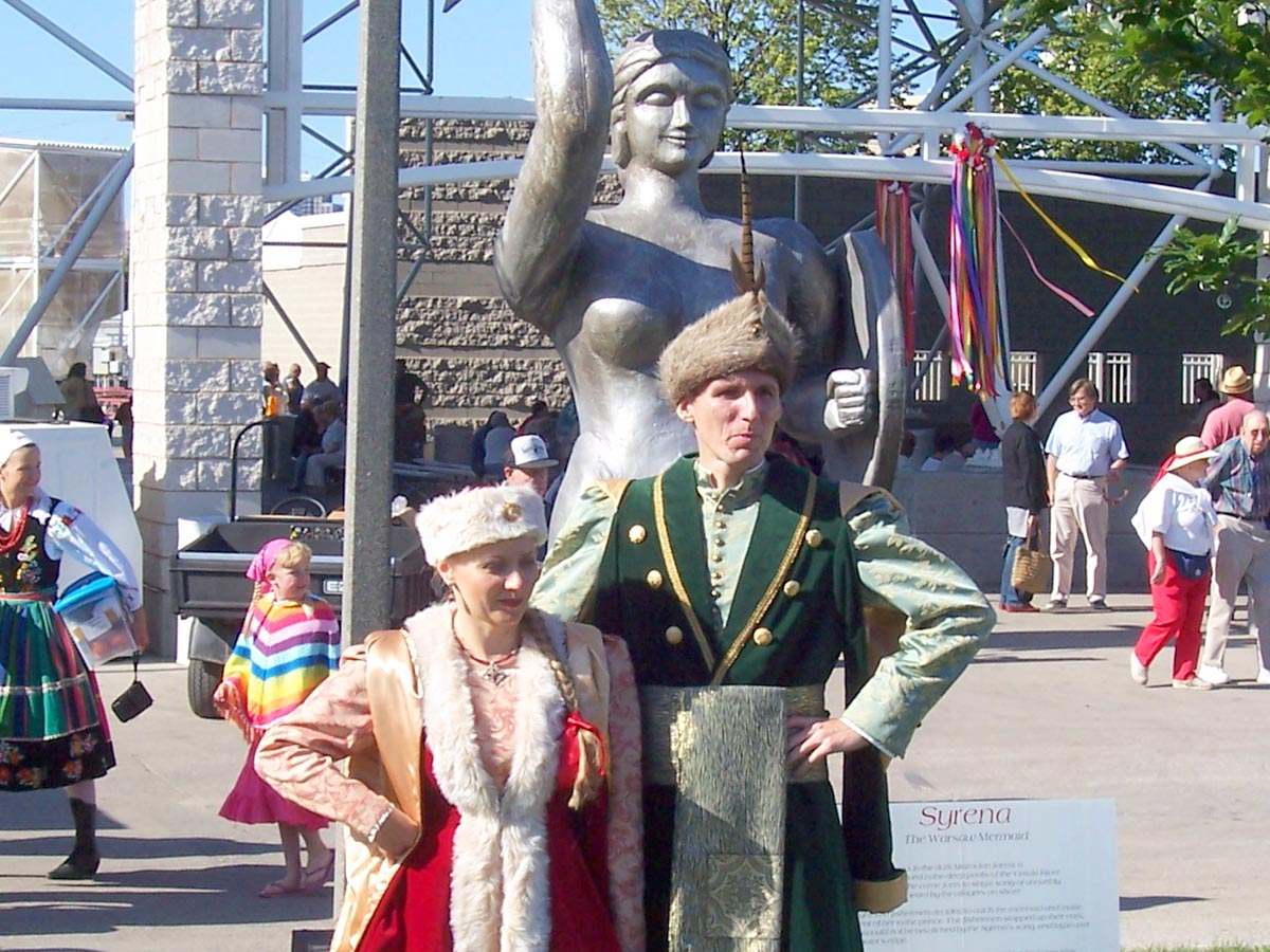 A costumed couple pose in front of Syrena the Warsaw Mermaid at Polish Fest, America's largest Polish festival held in Milwaukee, Wisconsin.